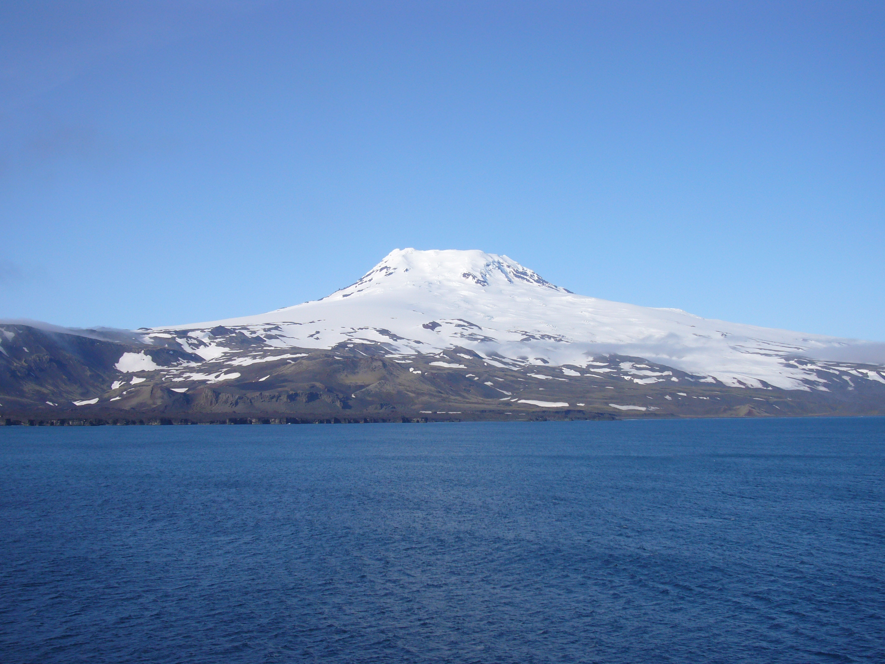 Beerenberg on Jan MAyen with unusually little fog